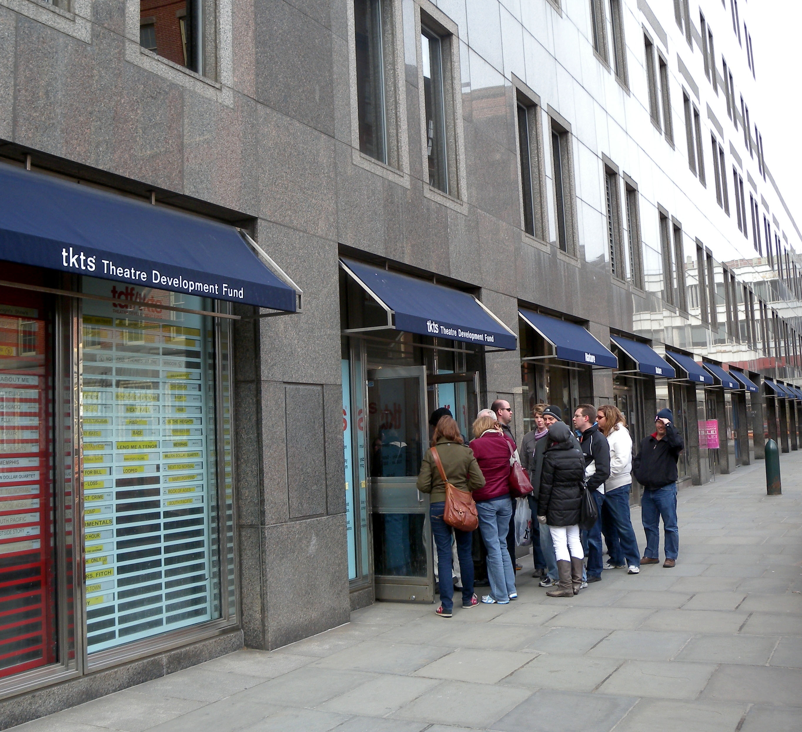 Looking northeast along Front Street at TKTS booth in SSSP on a sunny midday.